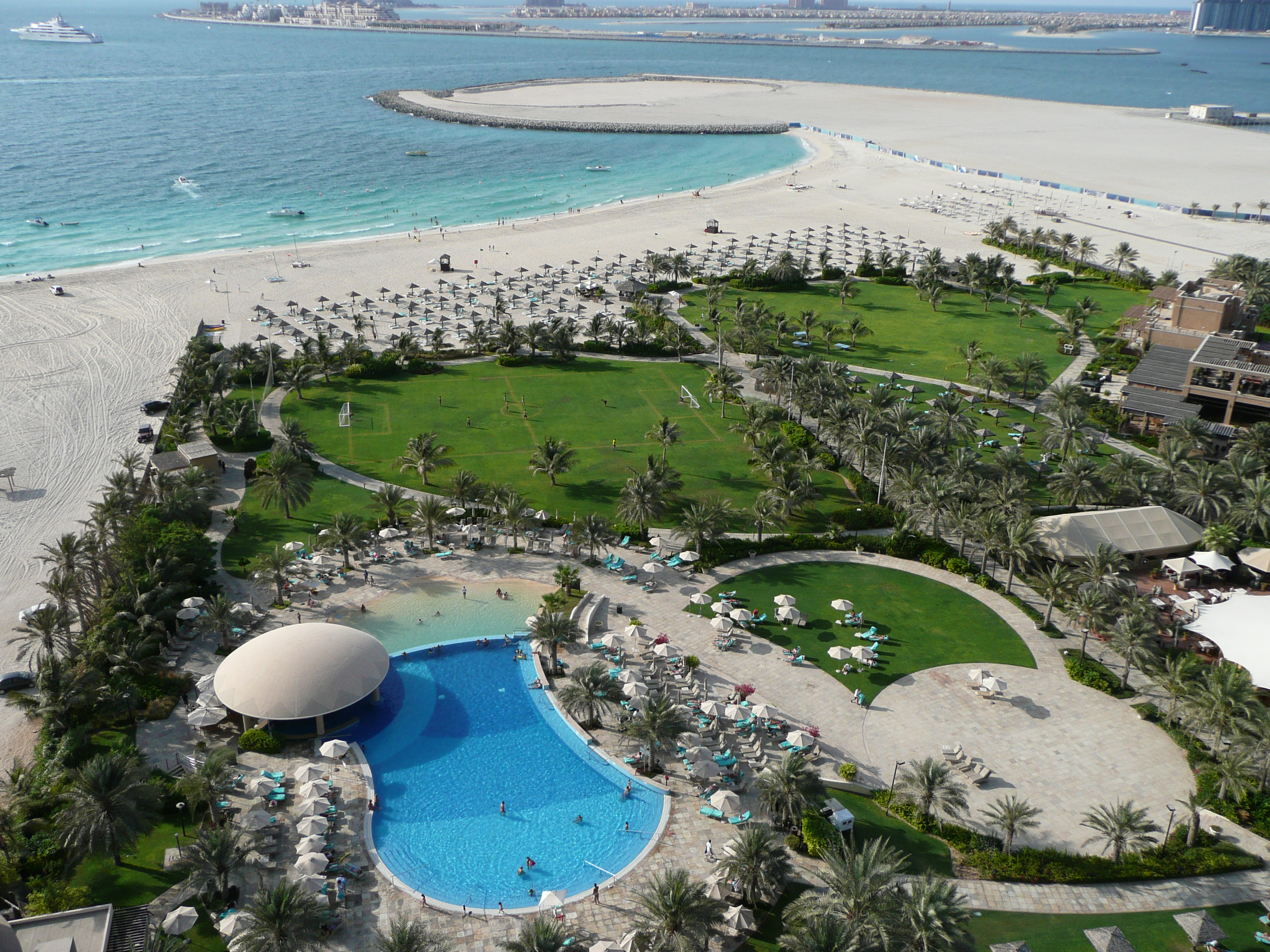 Beach and surrounding gardens from a tower room of Le Royal Méridien Beach Resort and Spa, Dubai Marina, Dubai, United Arab Emirates.